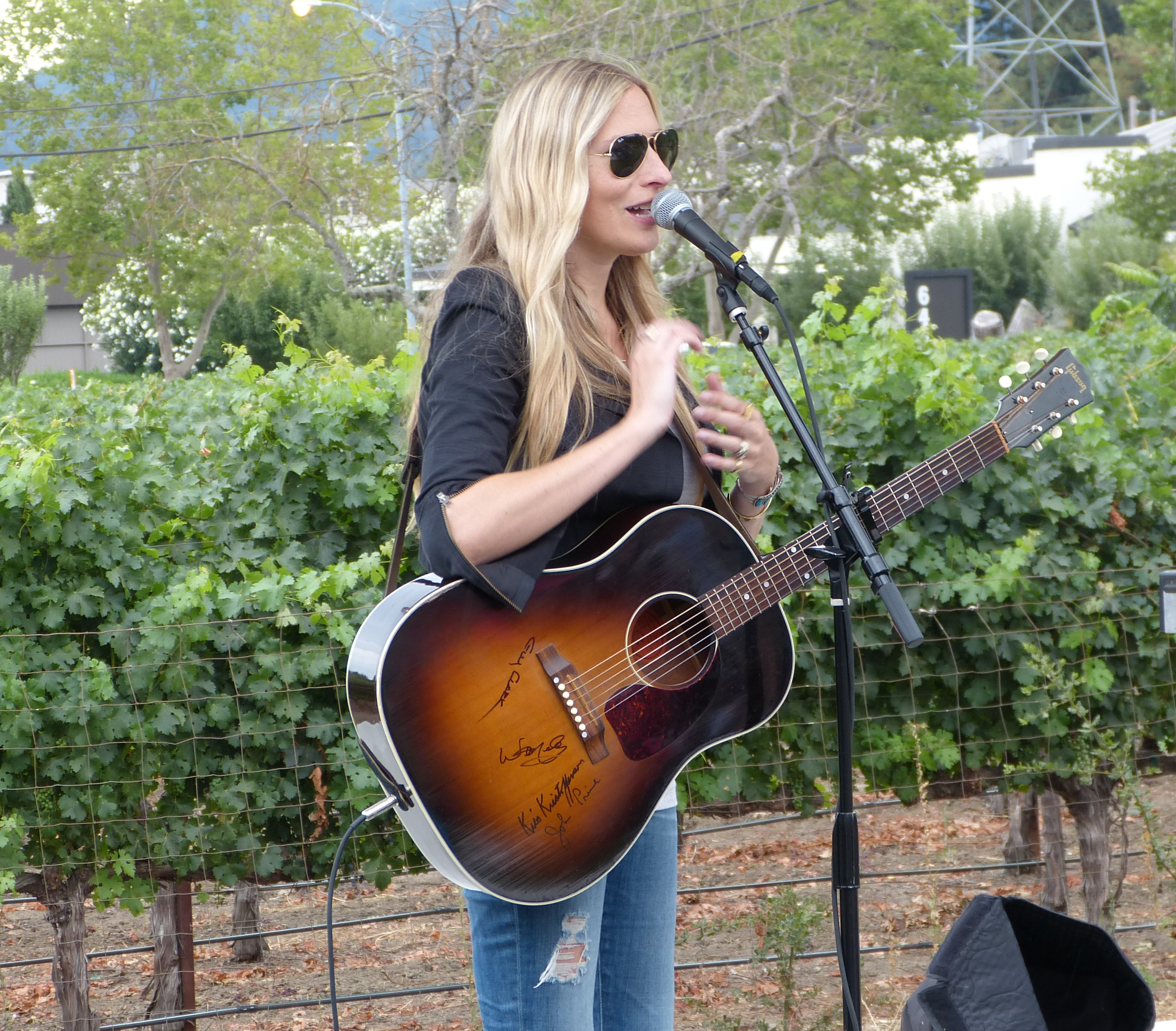 Long Meadow Ranch, St. Helena, CA, July 20, 2014